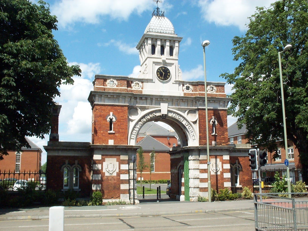 The gate to the Britannia Iron Works which used to stand on the site behind it, which is now a housing estate. The gate is listed, so now stands as an architectural feature and a monument to Bedford's industrial Past (the town was an engineering center until the late 20th century and now has almost no industry of any kind). The photo was taken from Kempston Road outside Bedford Hospital South Wing.